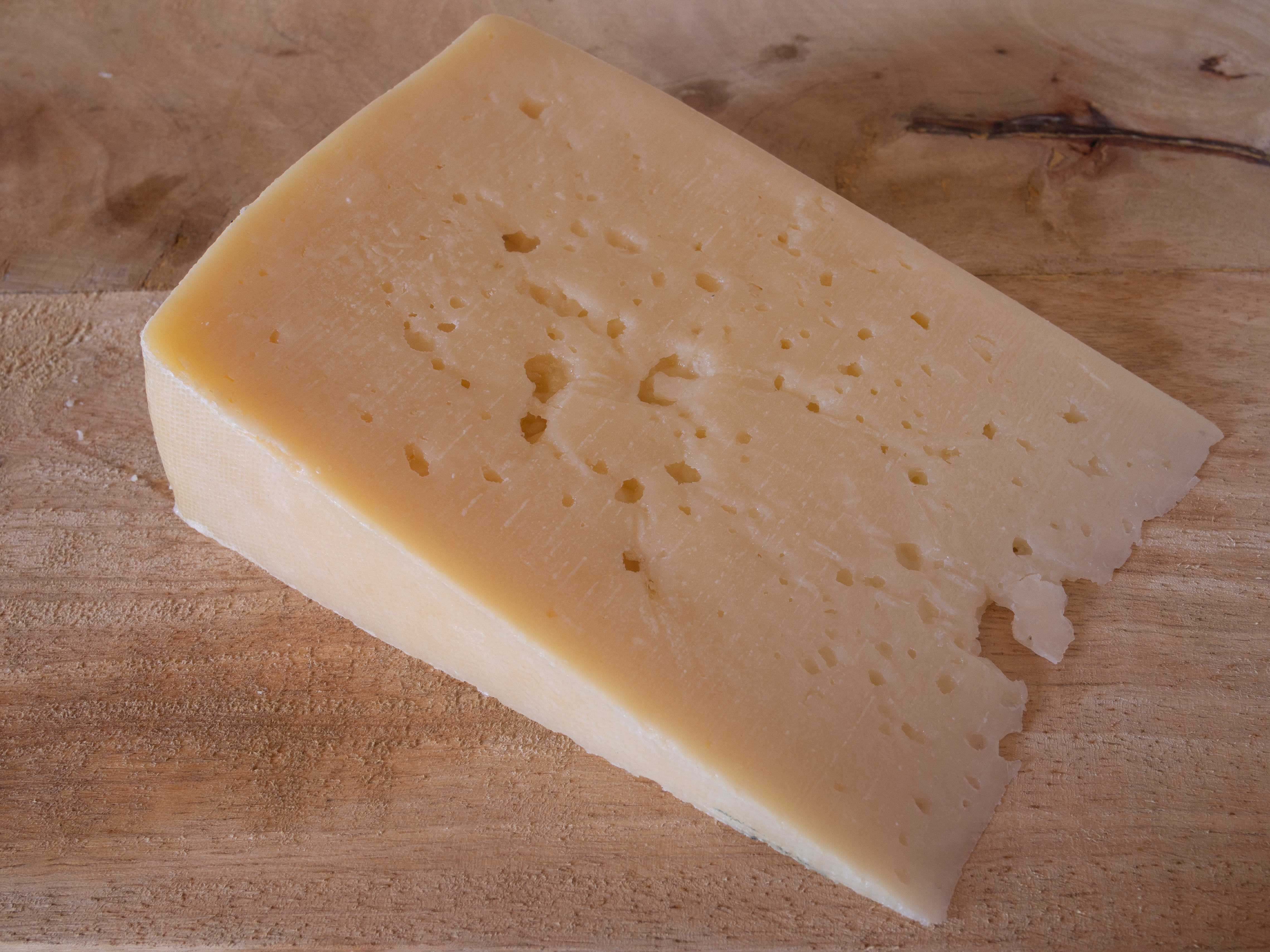 San Michali cheese, a semi hard cheese made in the greek island of Syros from cow milk.